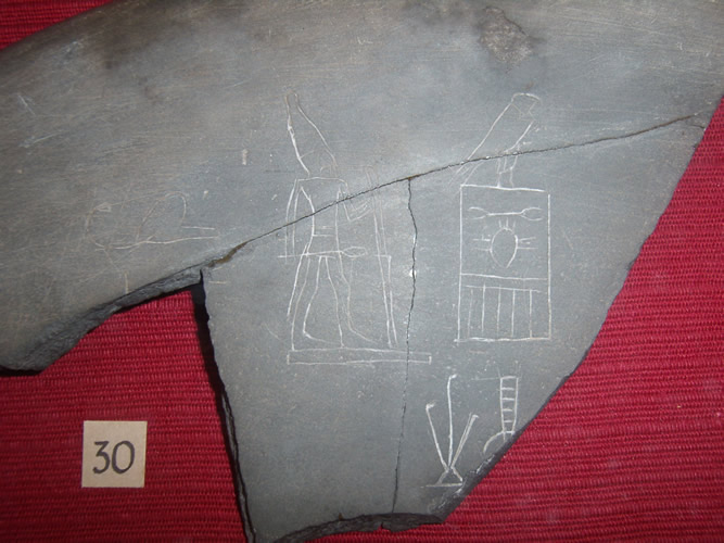 Fragment with the name and picture of the Egyptian king Anedjib